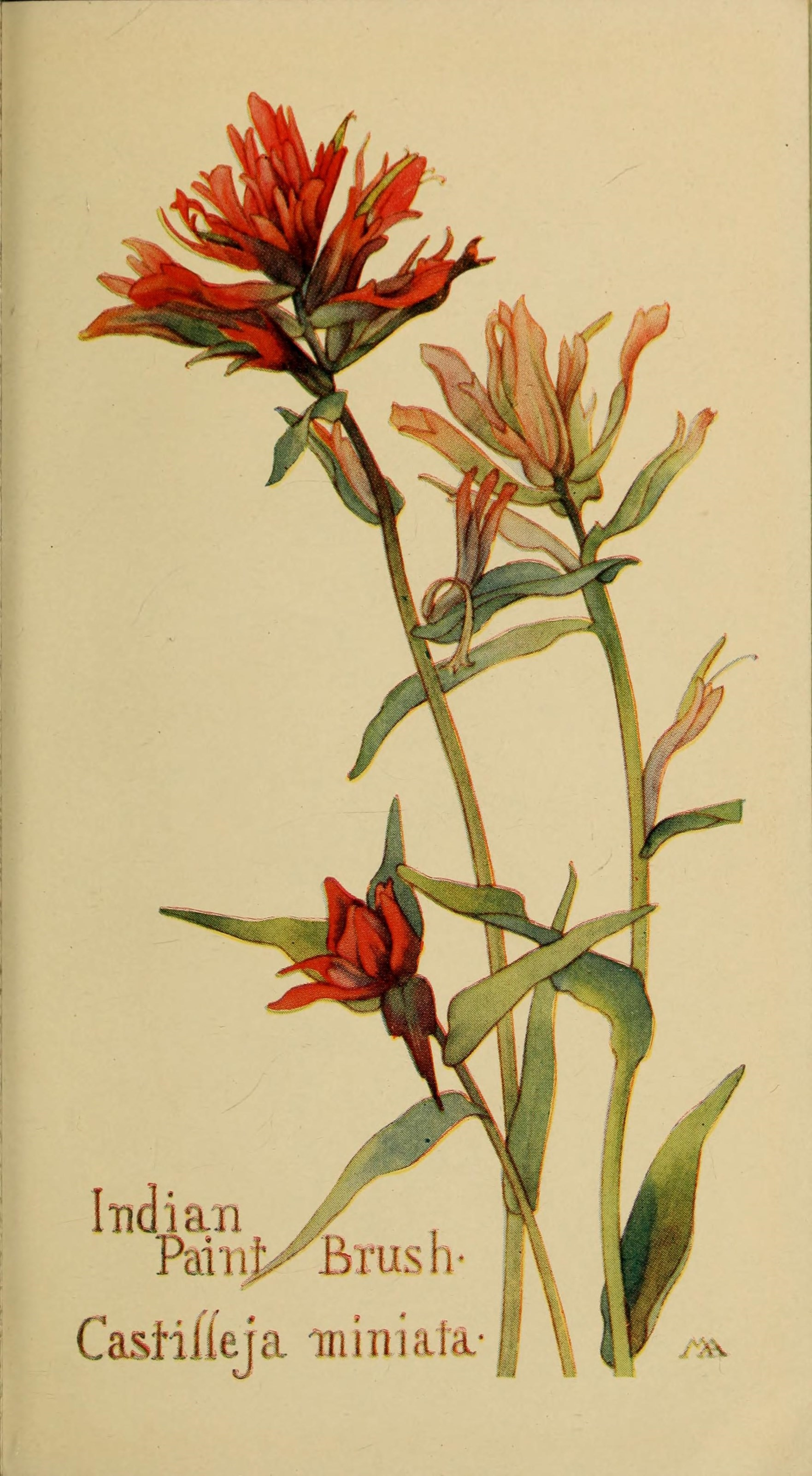 Field book of western wild flowers /. New York :Putnam,1915..